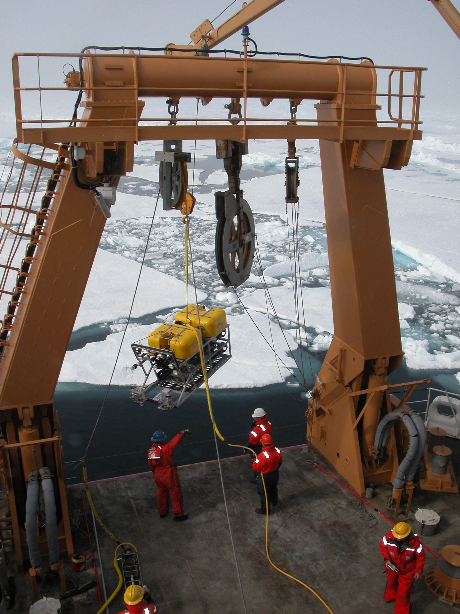 The ROV is deployed off the back of the boat using the Healy's A-Frame. Alaska/Beaufort Sea/Arctic Ocean.